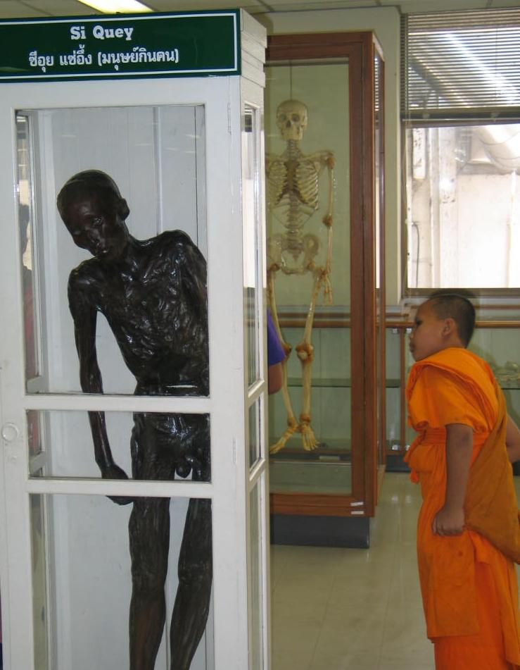 Mummy on display at the Forensic Science Museum in Bangkok.